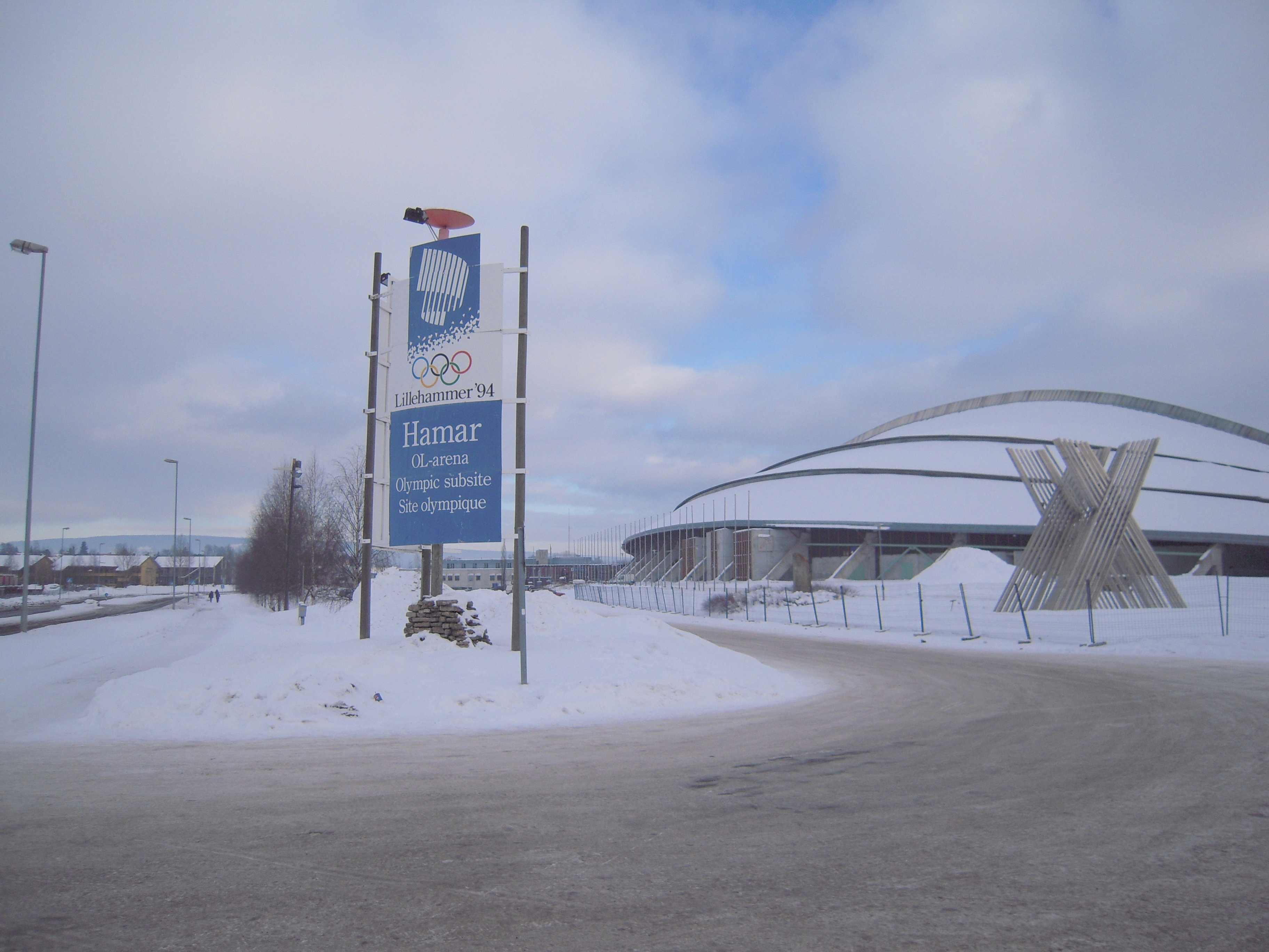 Vikingskipet, Hamar, Norway